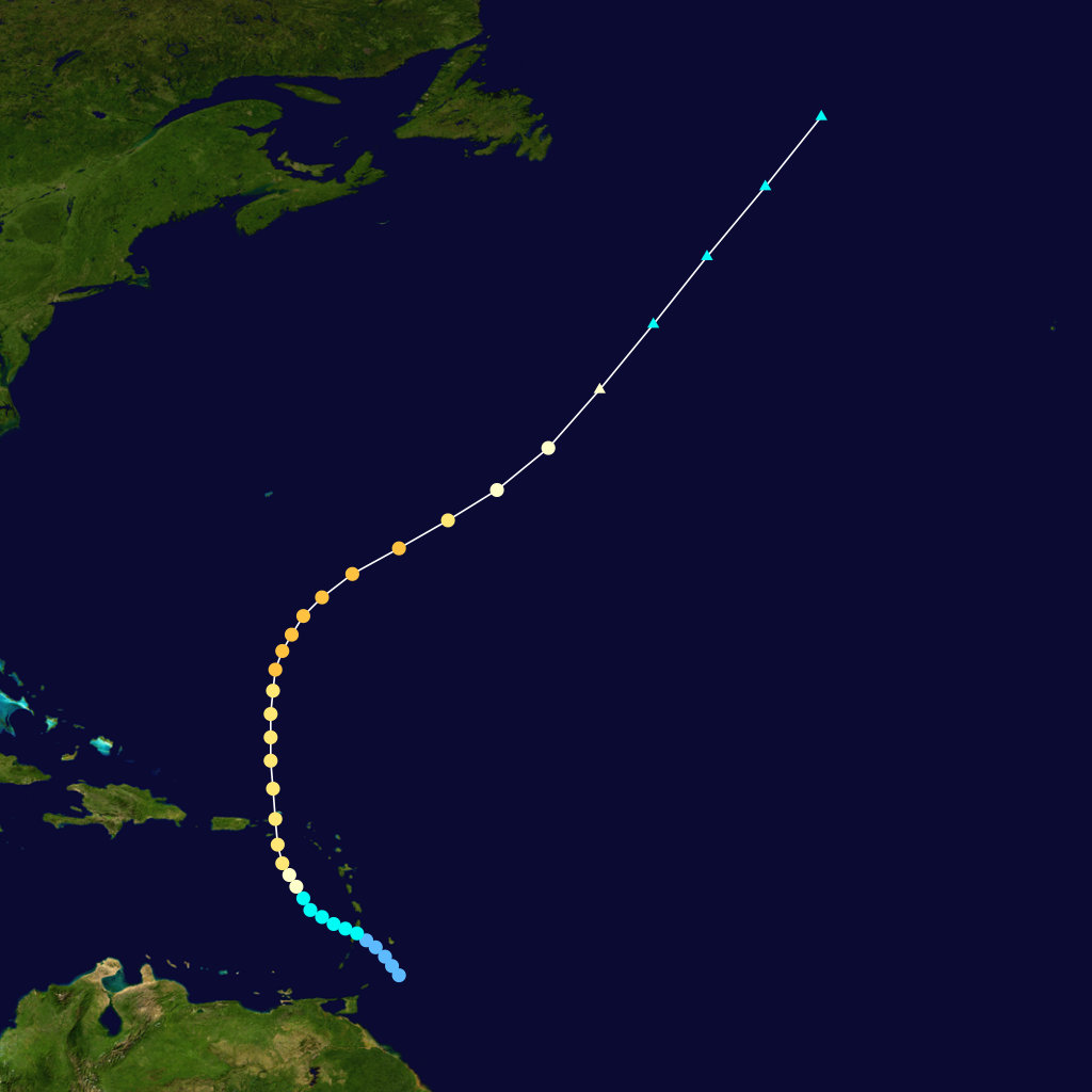 1916 Atlantic hurricane 13 track. Uses the color scheme from the Saffir-Simpson Hurricane Scale.